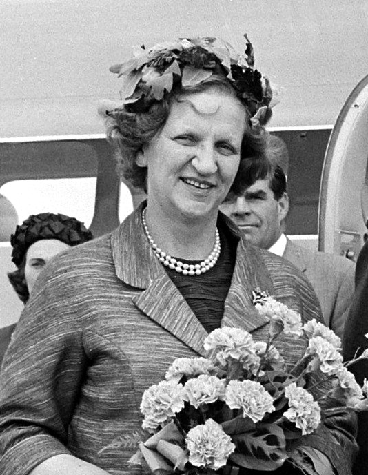 Depicted person: Elizabeth Douglas-Home, Baroness Home of the Hirsel – British noble